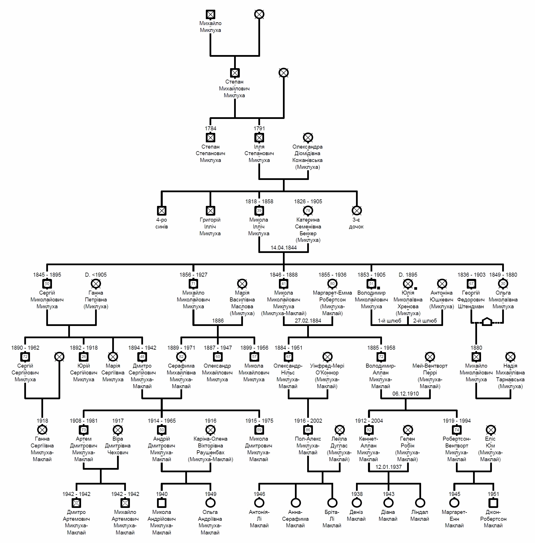 Family tree of Myklukha